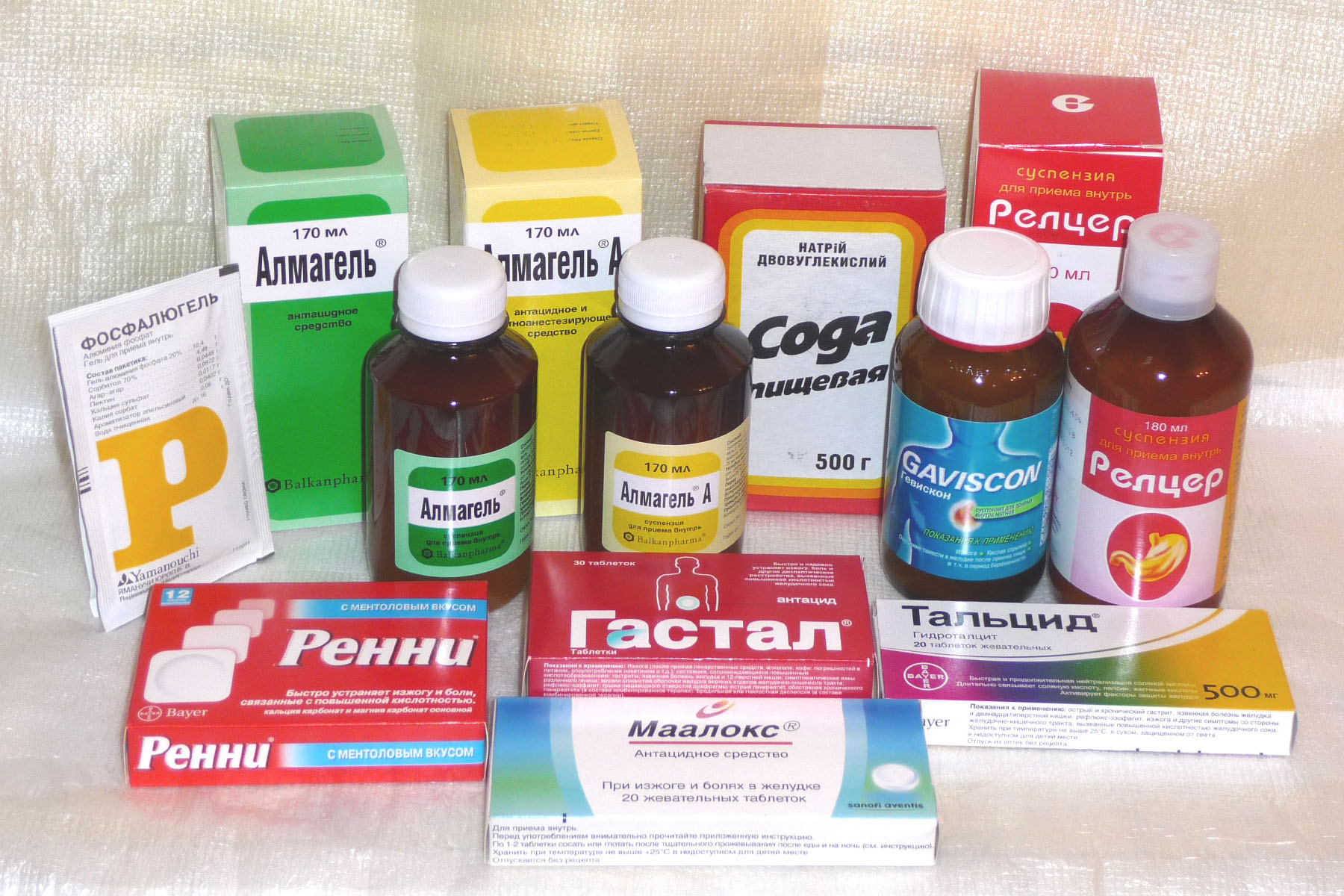 Some antacids